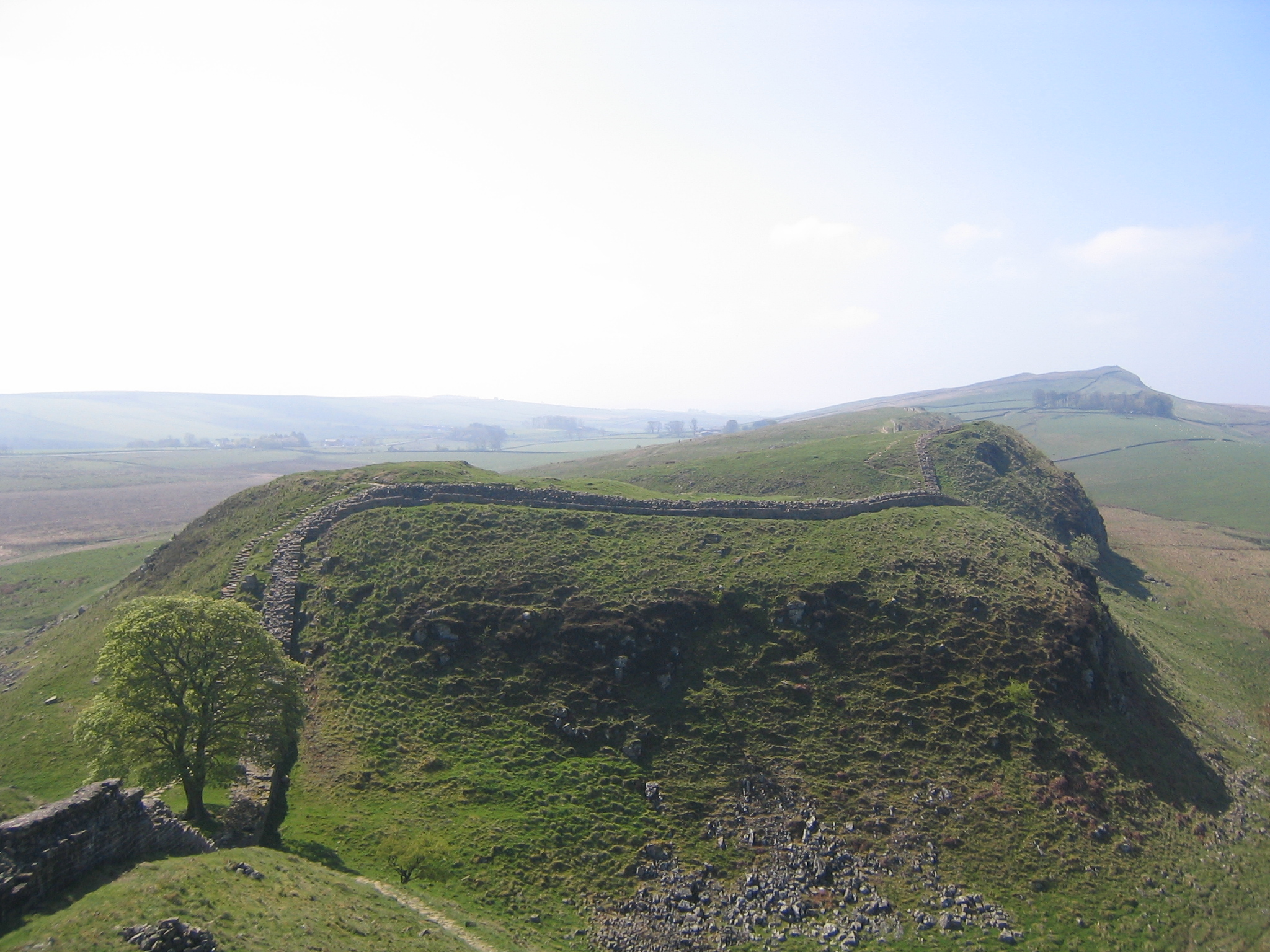 Sycamore Gap, a section of the wall between two crests just west of milecastle 38, is locally known as the "Robin Hood Tree". This location was used in the 1991 film Robin Hood: Prince of Thieves, as the setting for an interlude during Robin's journey from the White Cliffs to Nottingham via Aysgarth Falls.